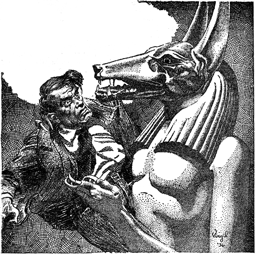 Main illustration from the short story "The Opener of the Way." Internal Illustration from the pulp magazine Weird Tales (October 1936, vol. 28, no. 3, page 277).